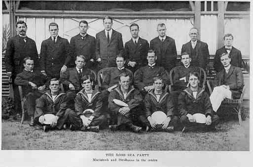 Group photograph of Ross Sea Party, 1914